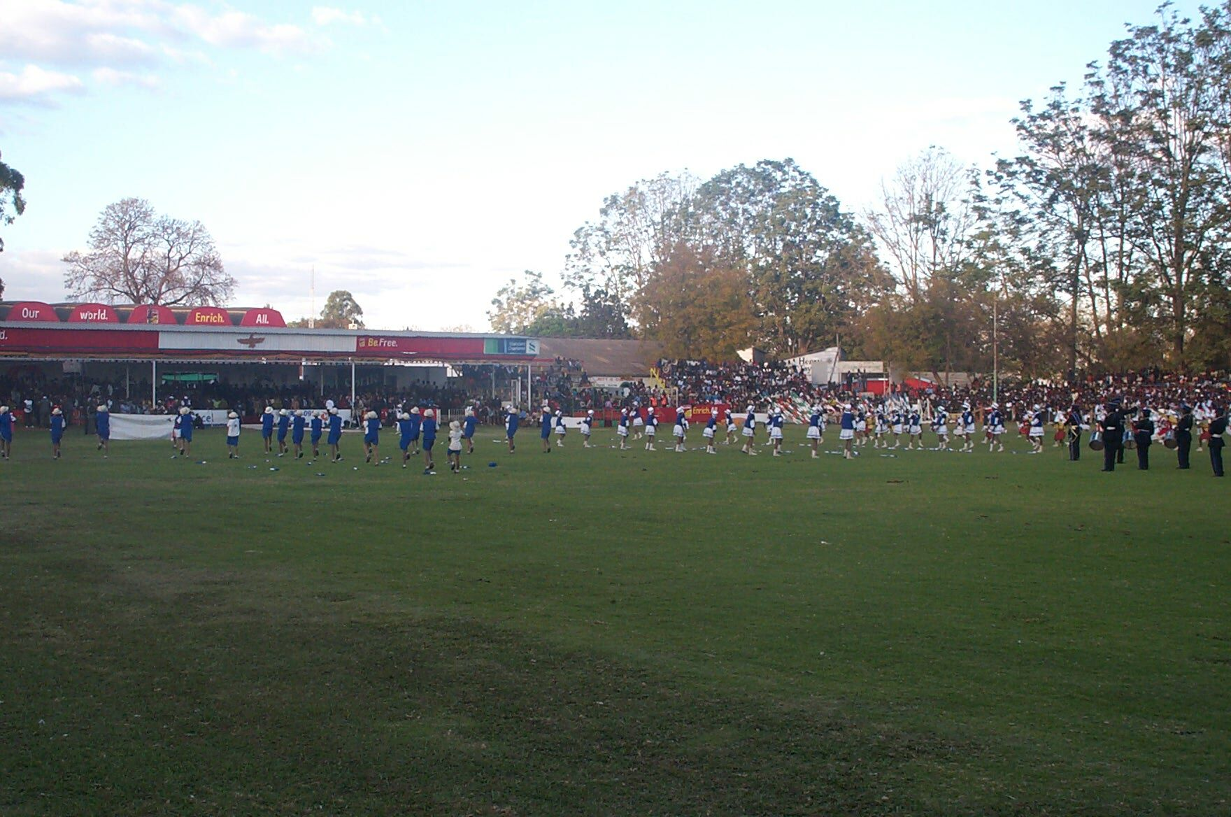 Royal Agriculture Show